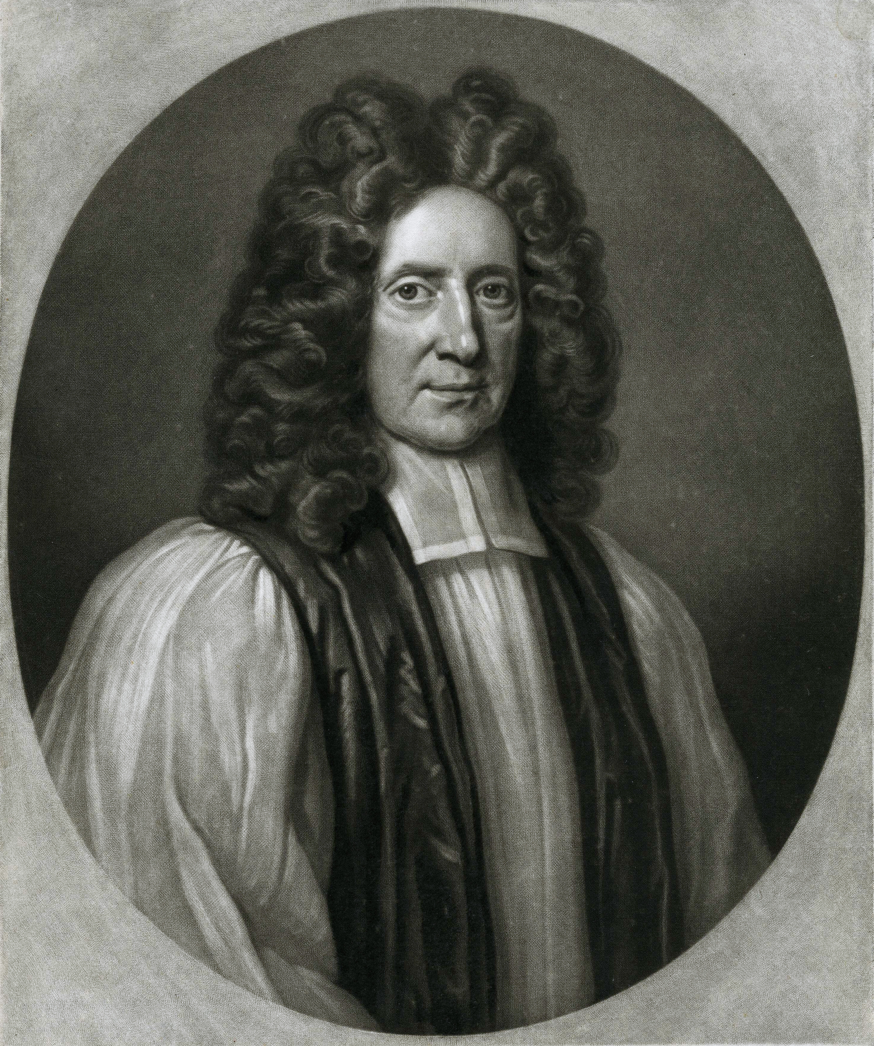 Richard Cumberland, engraving by J. Smith after a portrait by T. Murray, 1706